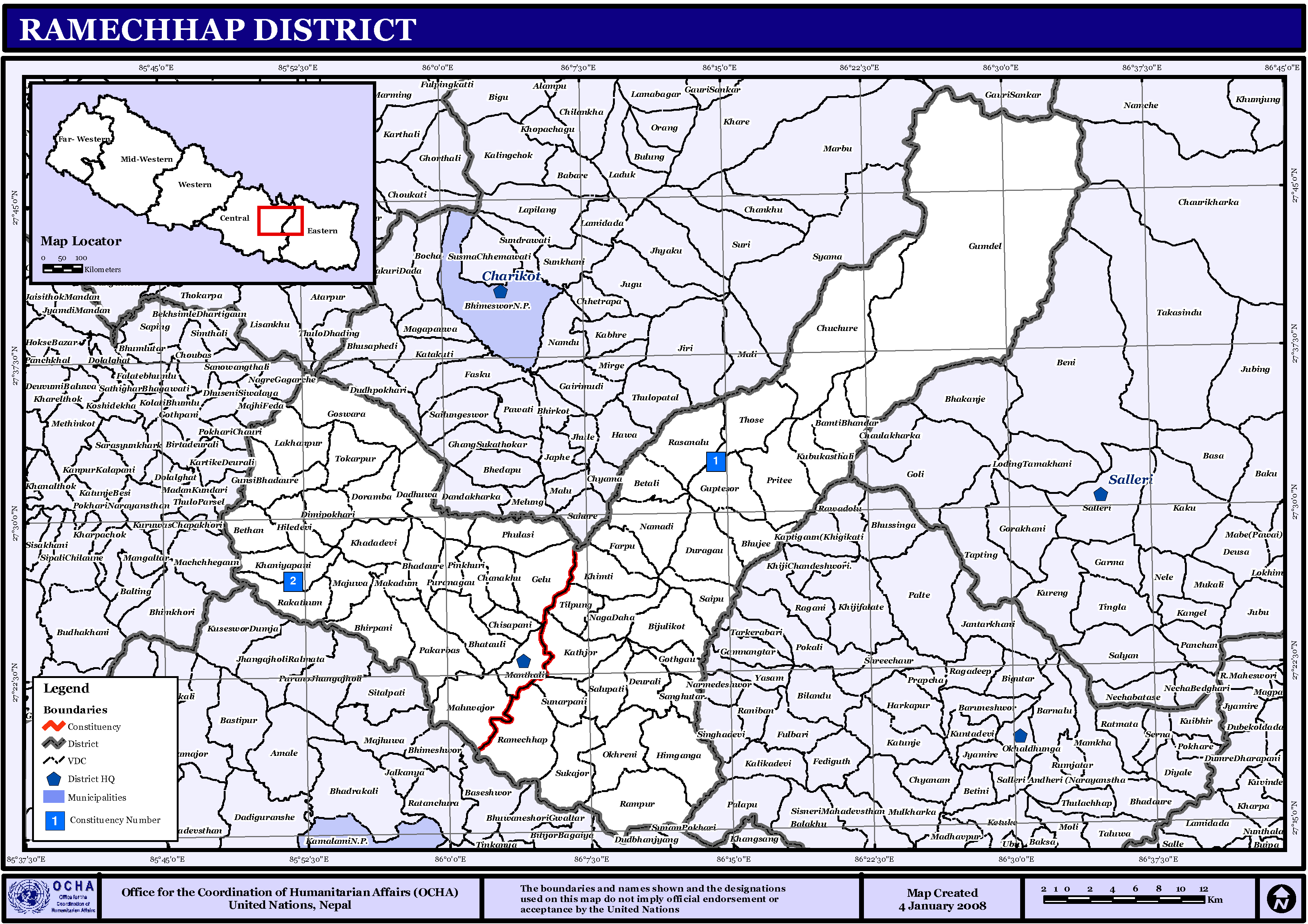 Map displaying Village Development Committees in Ramechhap District, Nepal